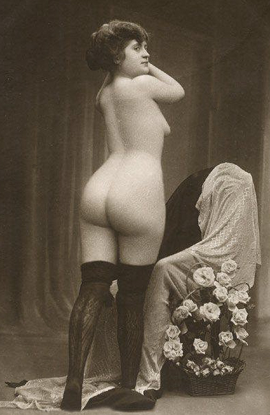 Pygophilia postcard